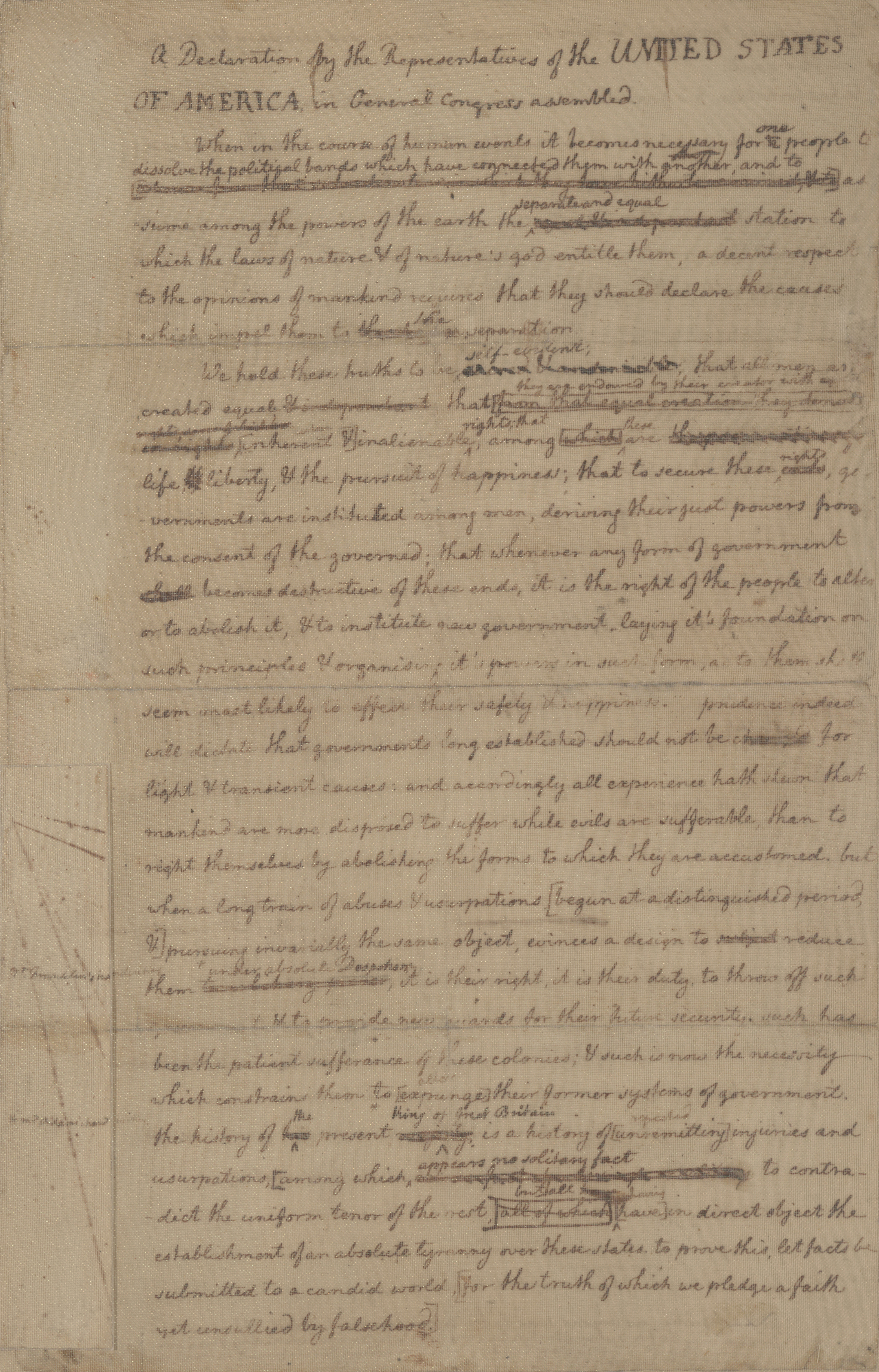 Realizing the importance of the writing of the Declaration of Independence for the American Revolution and posterity, Thomas Jefferson prepared his Notes of Proceedings in Congress, June 7–August 1, 1776. He included a copy of the Declaration as it was presented to Congress on June 28 and amended by them in the days leading up to its final approval by Congress on July 4, 1776. In 1781, James Madison asked Jefferson for his account of those tumultuous and pivotal days, and Jefferson sent him these "notes".